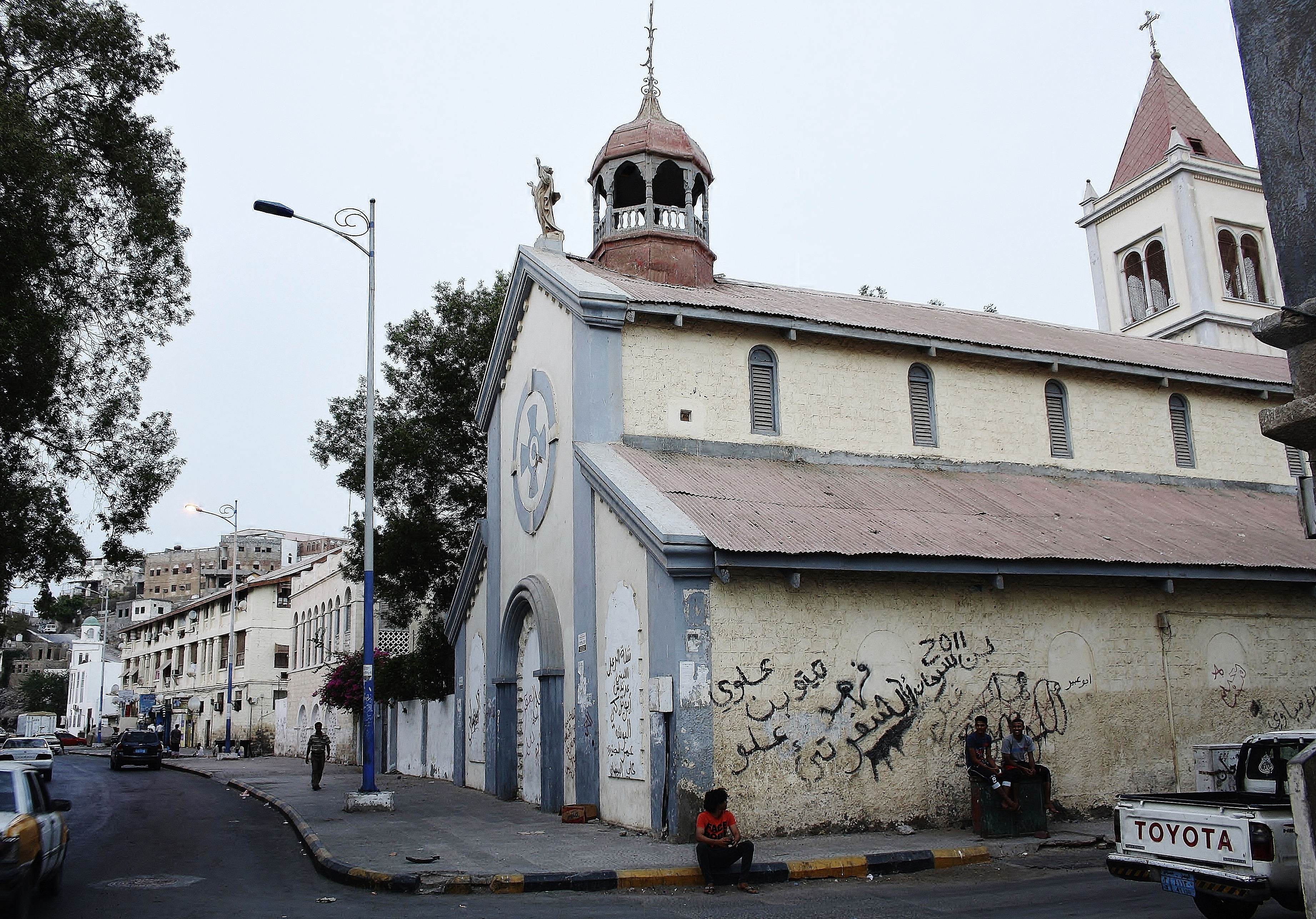 The Catholic Church of St Francis of Assissi. The statue of Christ blessing the sea was often stoned and had shots fired at it! But He's still there!